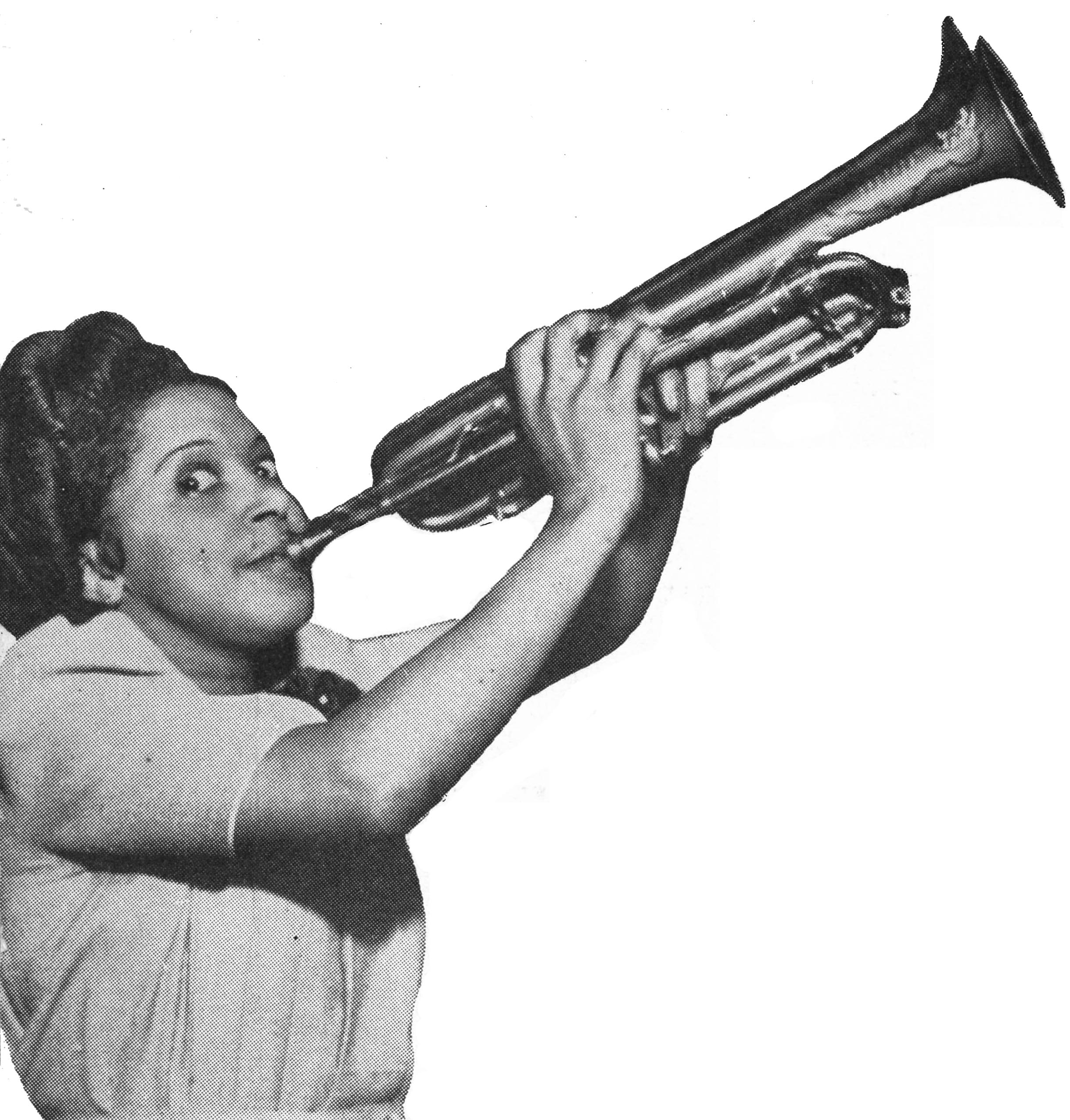 Valaida Snow (1904-1956), United States jazz trumpet player, singer and bandleader. Picture in an advertisment for the Swedish Sonora label for which Snow at this time made records during a tour of Sweden.